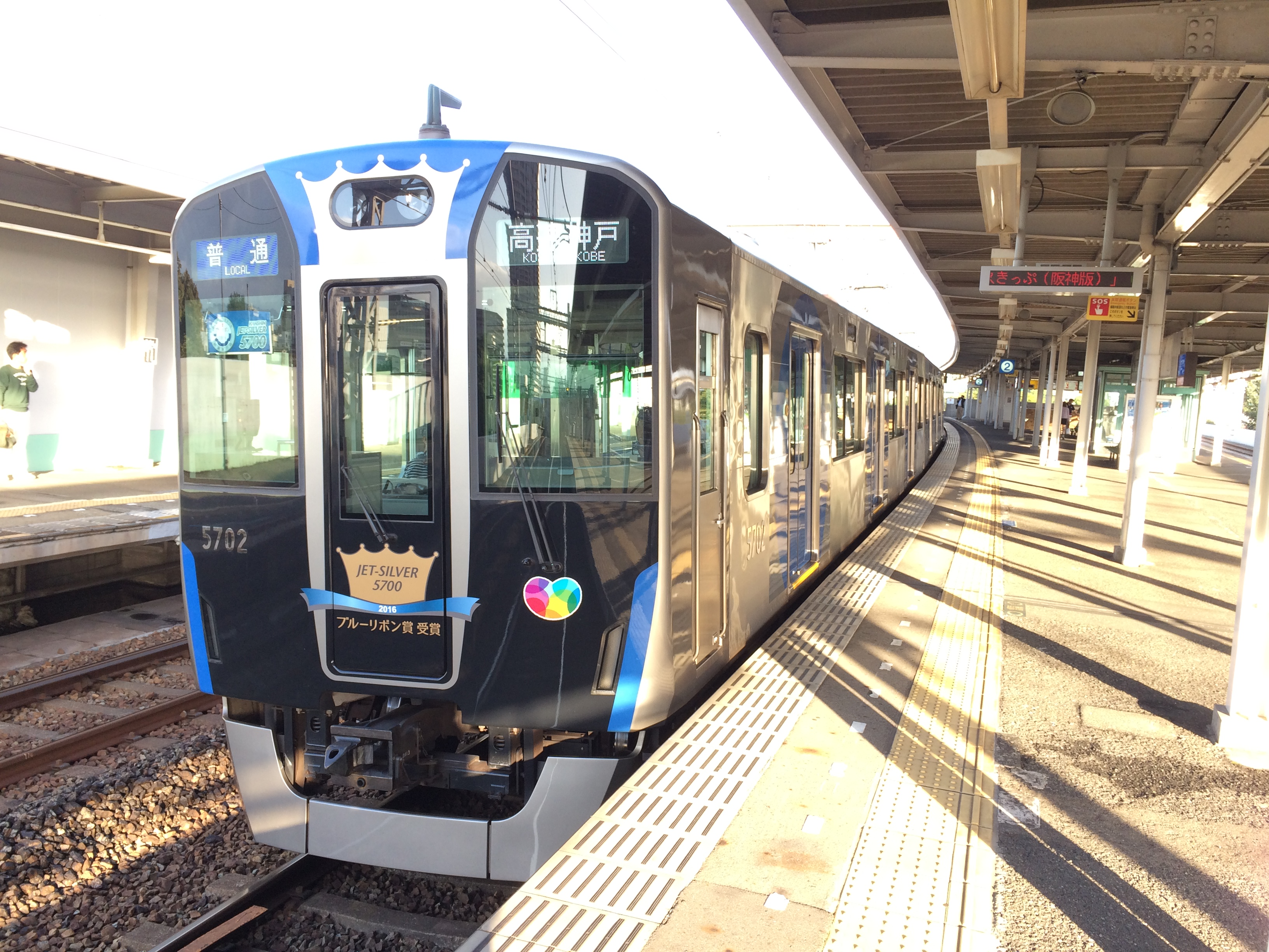 Hanshin Electric Railway 5700 series EMU set 5701 at Daimotsu Station with special vinyls on the front end marking receipt of the 2016 Blue Ribbon Award